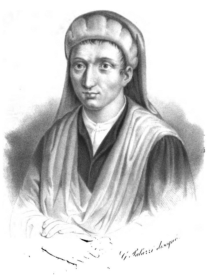 Leonardo Bruni's imaginary portrait by G. Palazzi, in Leonardi Aretini Historiarum Florentini populi libri XII (Twelve books of histories of florence people by Leonardo Bruni), translation in italian edited by Donato Acciaiuoli, Le Monnier, Florence 1857